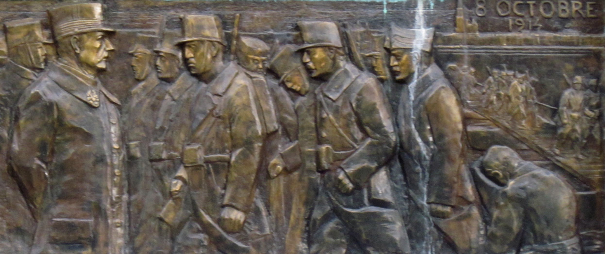 Artistic depiction of the Siege of Antwerp (1914), from the memorial of Lieutenant-General Baron Dossin de Saint-Georges at the Le Cambre Abbey.